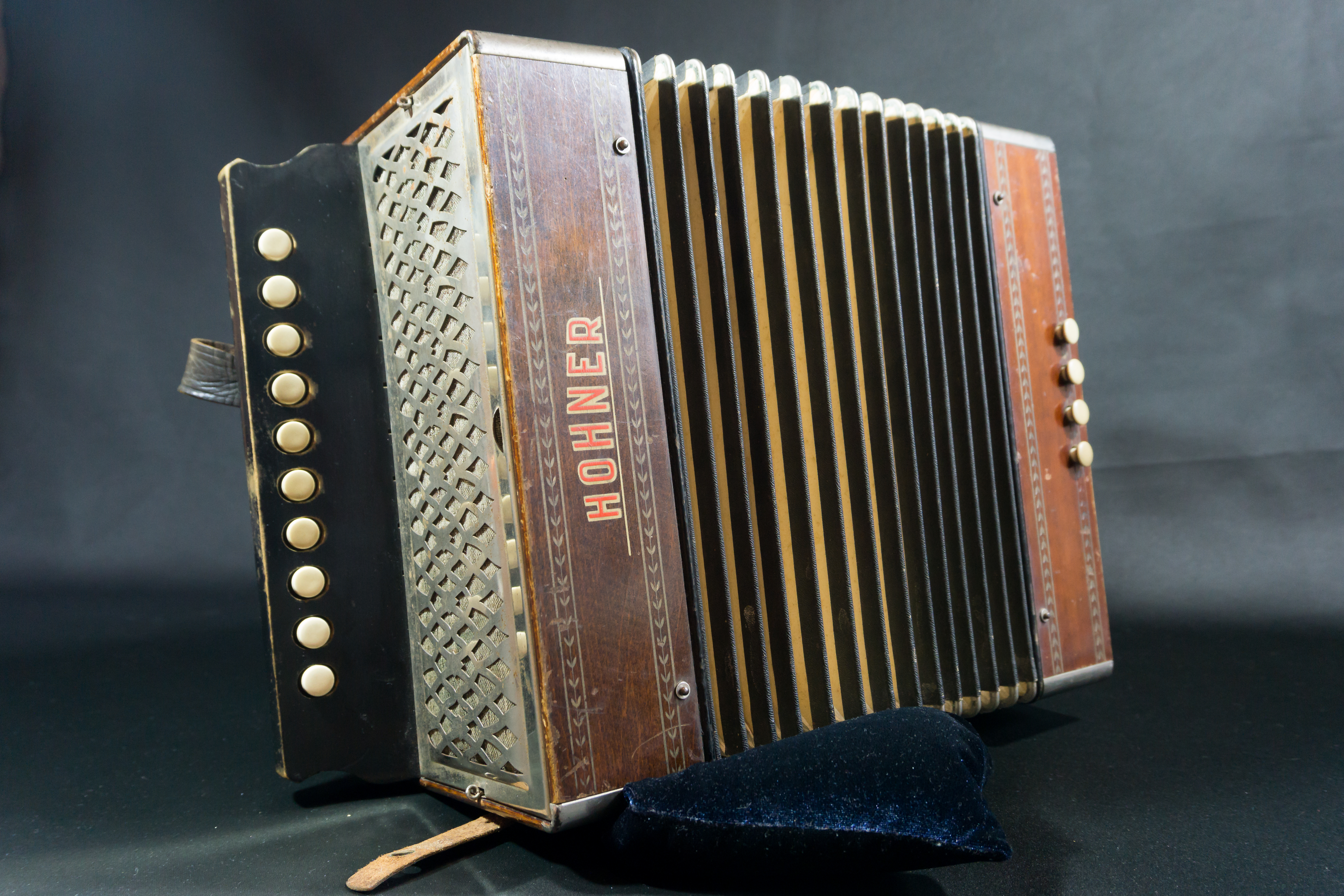 Wiki loves Music - Hamburg 2017: Musical Instruments up close. Hohner Accordion